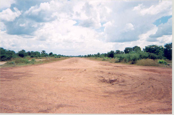 Rumbek airstrip , South Sudan: Lengthwise view of the current runway looking due north. Ground at the northern end and beside the airstrip was carefully swept for landmines and unexploded ordnance in order that shrubs and trees can be safely removed to extend and widen the runway.